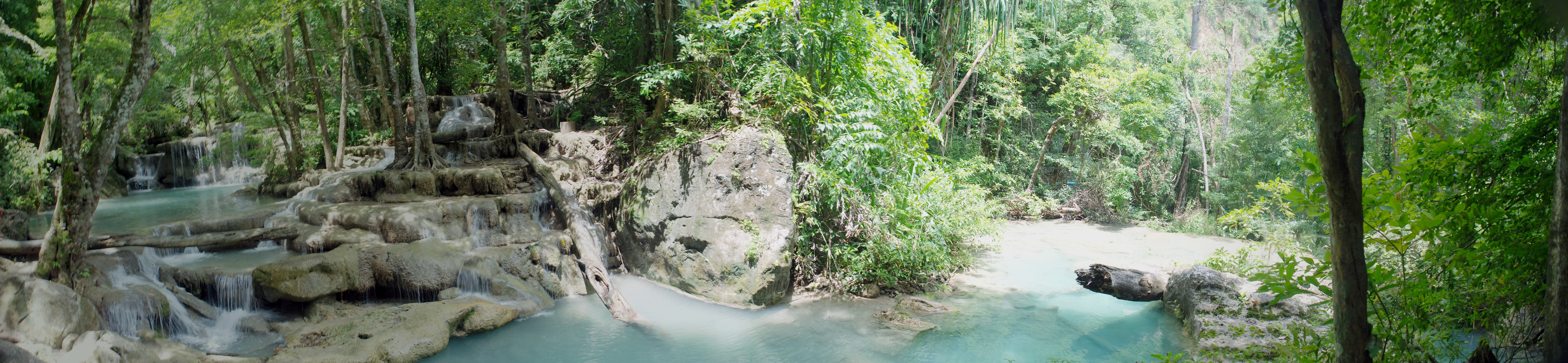 5th tier at Erawan 7-tier waterfall in Erawan National Park, Kanchanaburi Province, Thailand.